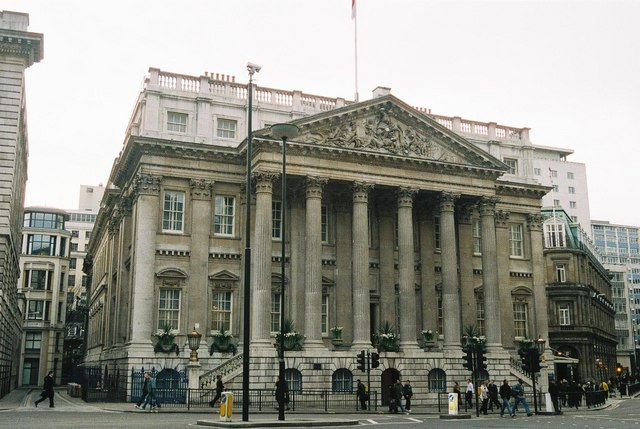 City of London: Mansion House Despite there being a Tube station called Mansion House, it is only the third nearest to this, the Mansion House. Mansion House is in Mansion House Street, one of London's shortest streets – both ends are in this picture!